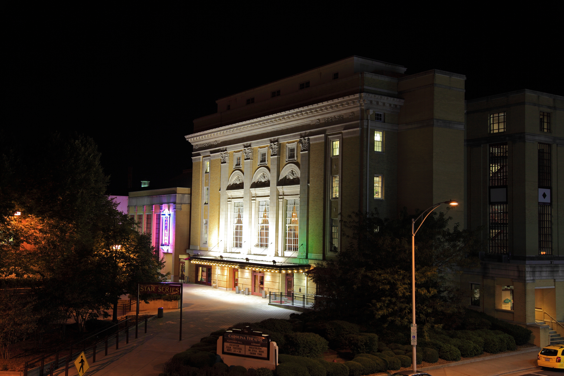 The Carolina Theatre at night in Durham, North Carolina.